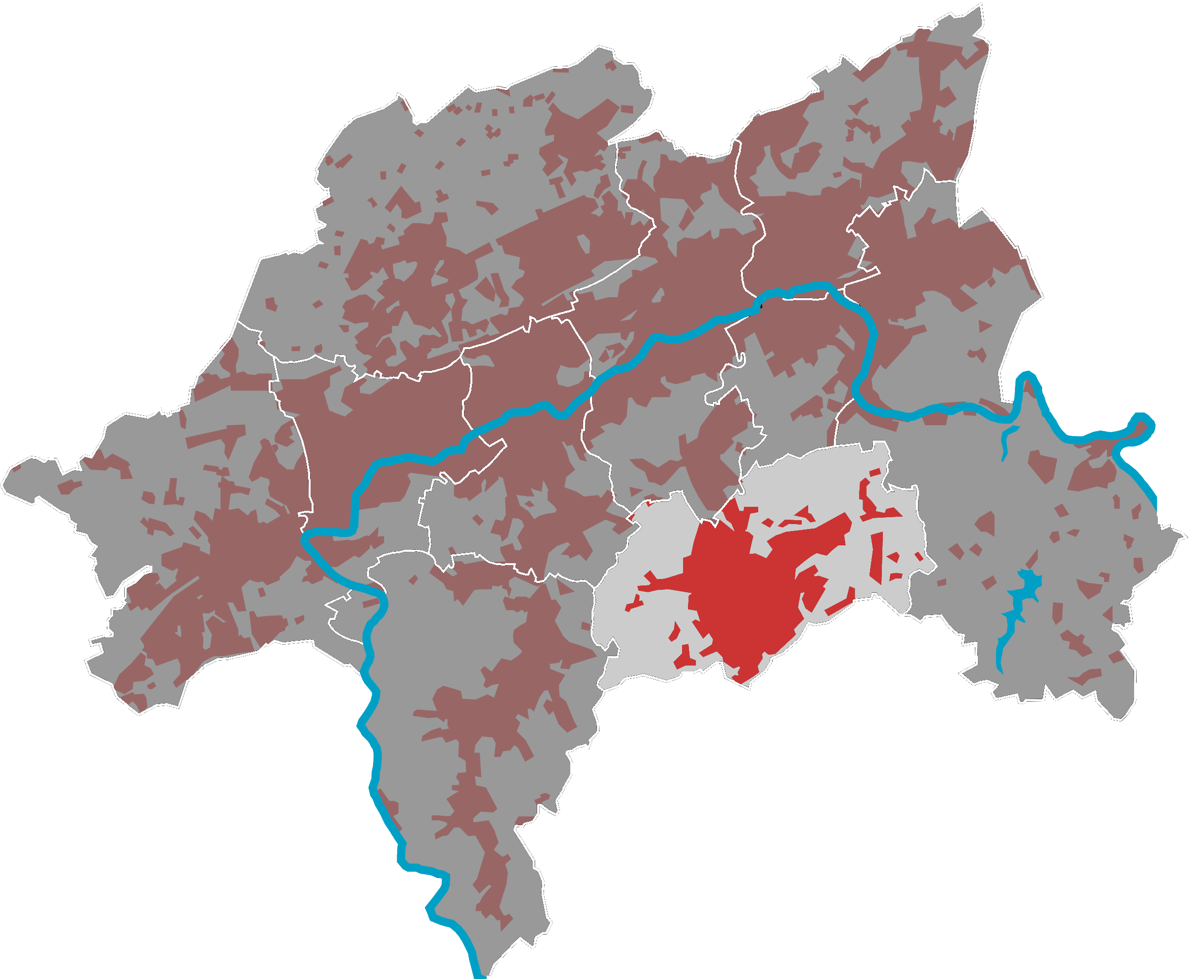 Position of Ronsdorf District, Municipality of Wuppertal, Germany